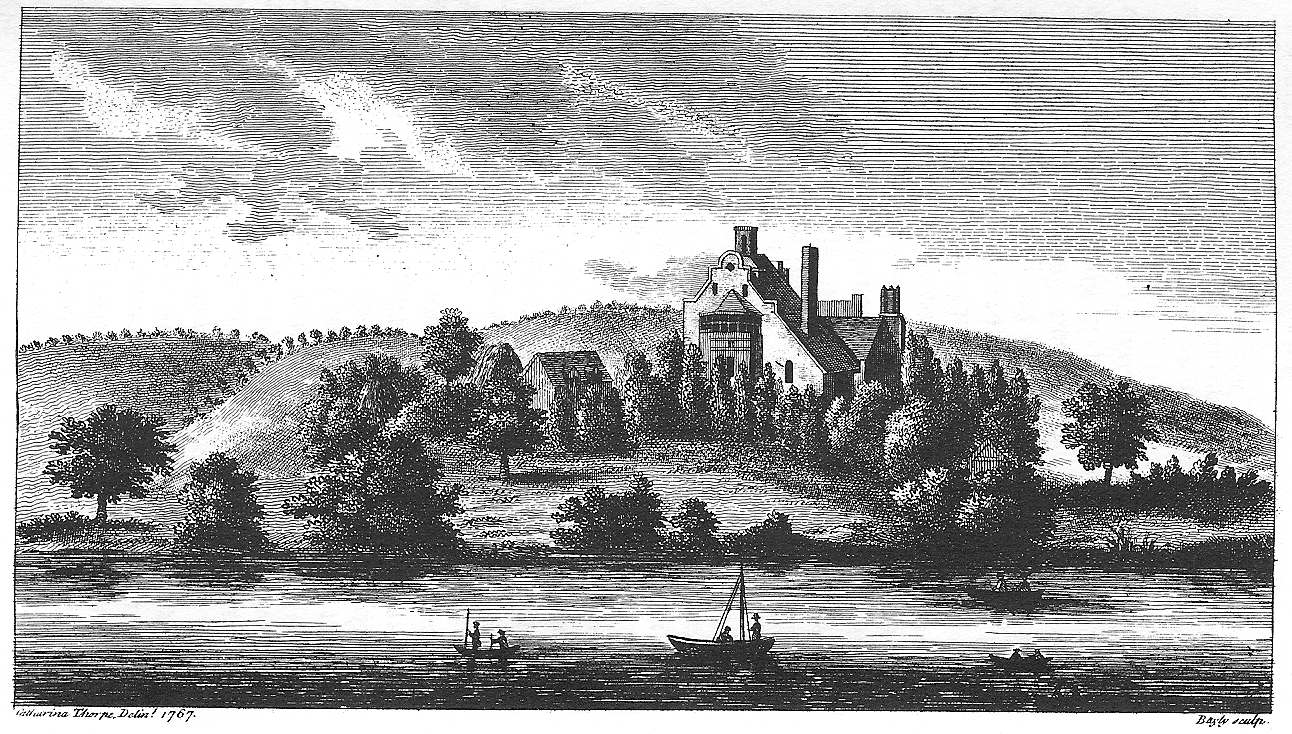 Engraving of Temple Manor House, Strood, Kent, in the UK, seen from across the River Medway at Rochester, Kent. The house – and its modern surroundings – can be seen today on Google Earth at 51° 23' 21.80" N, 0° 29' 26.16" E.